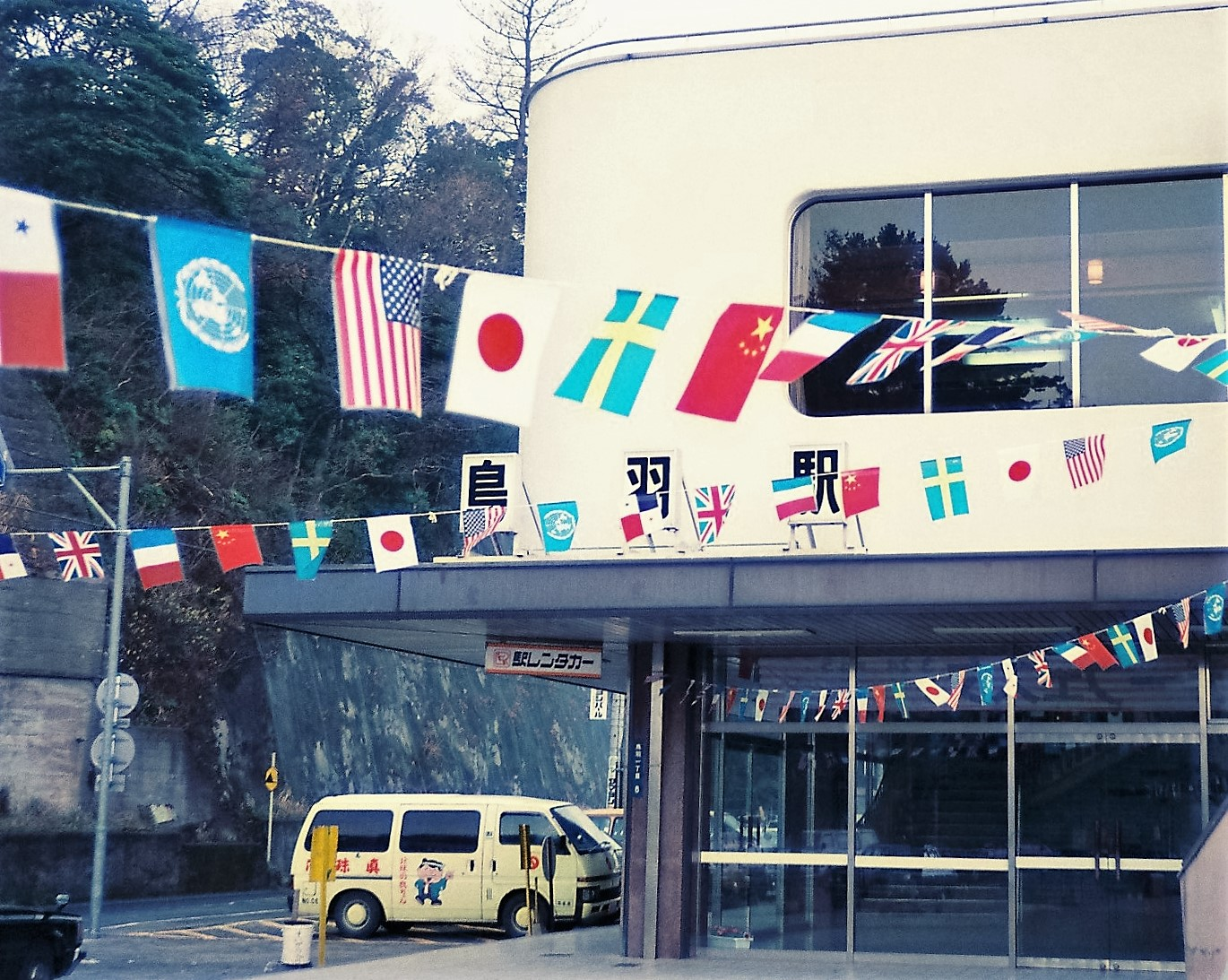 Toba Station